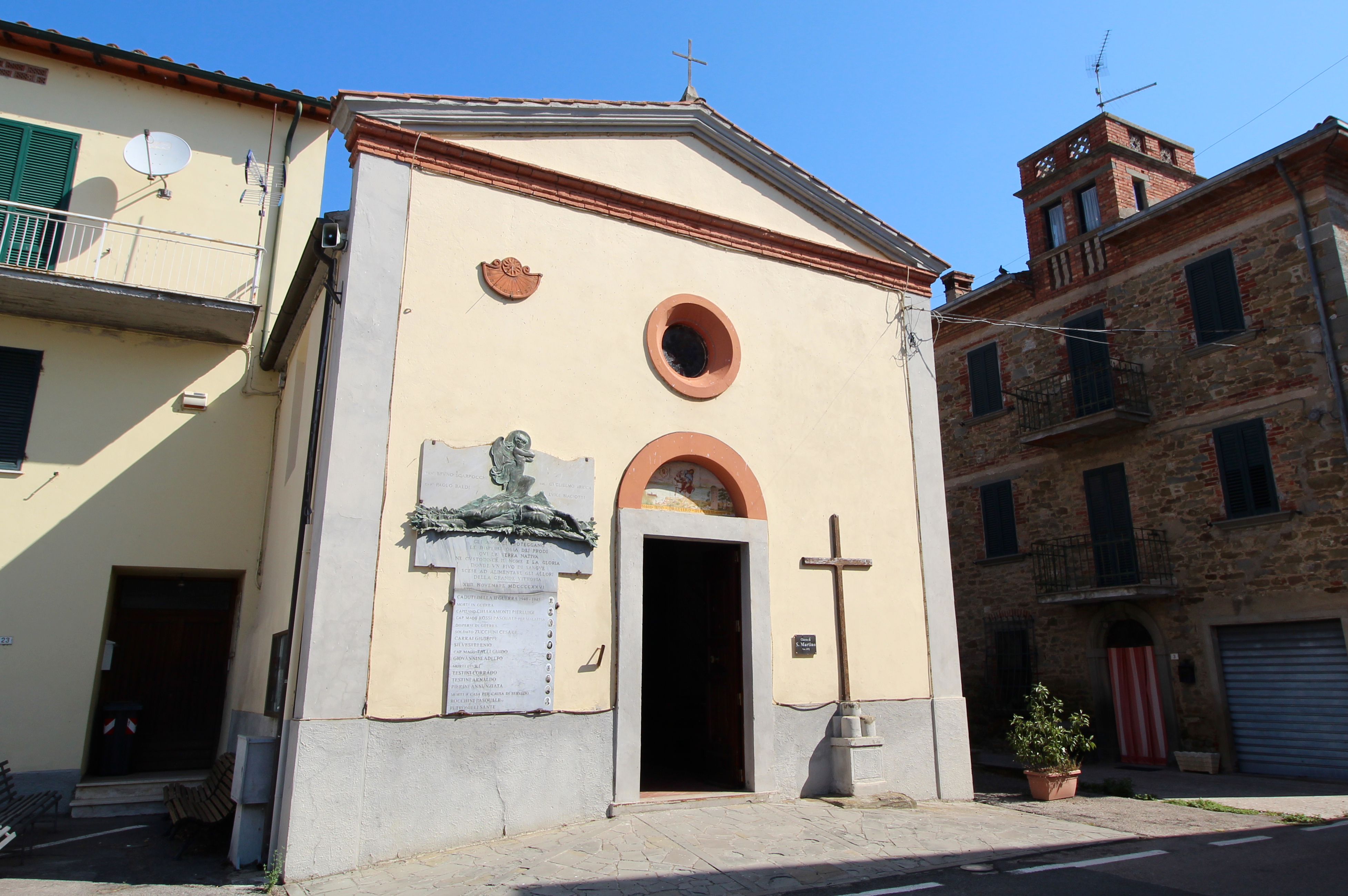 Church San Martino, Borghetto, hamlet of Tuoro sul Trasimeno, Umbria, Italy